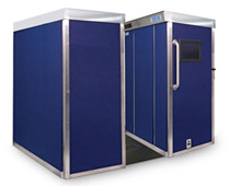 Backscatter Unit